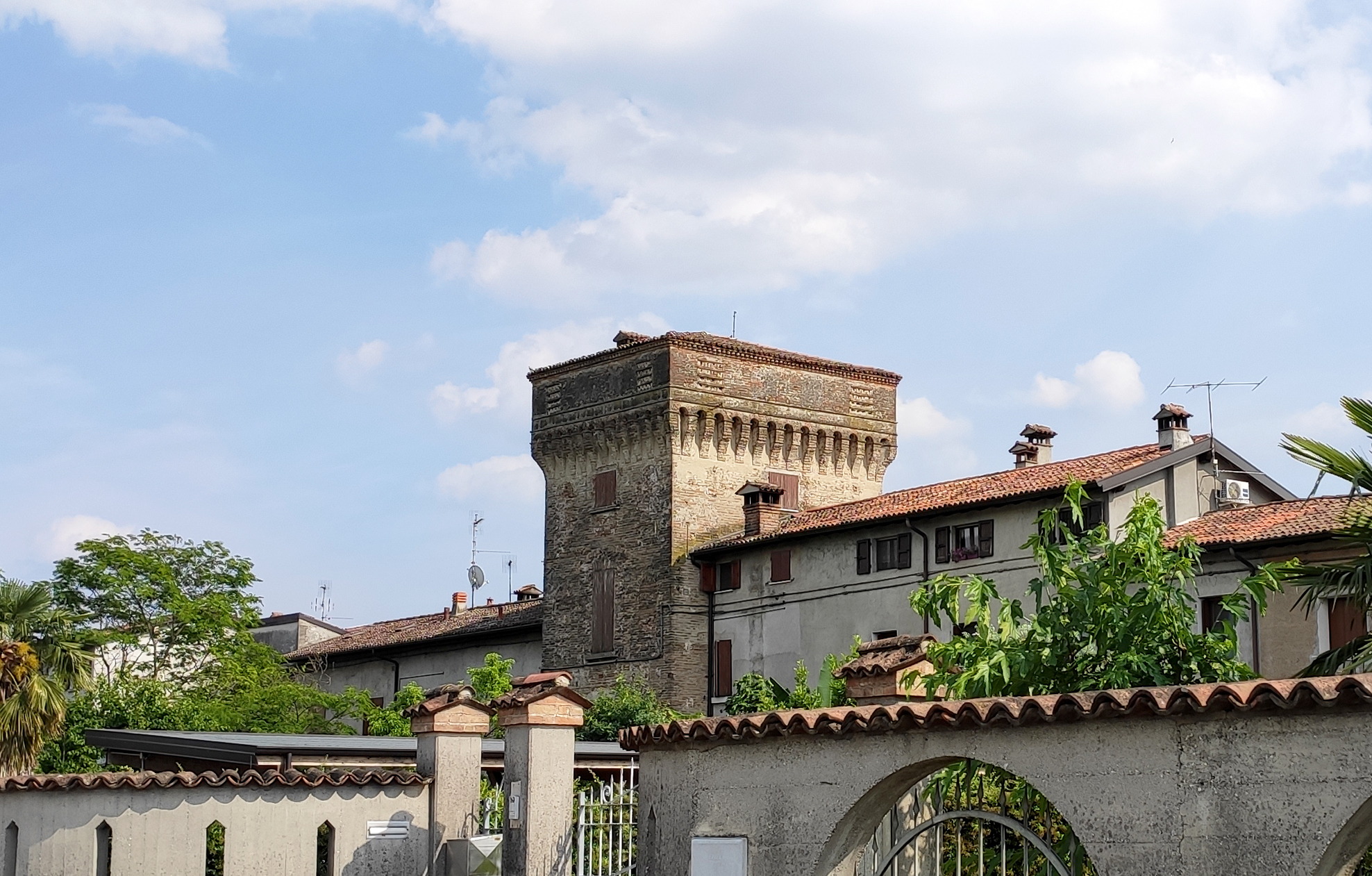 Old building in Capriano del Colle, Monte Netto hill Brescia Province